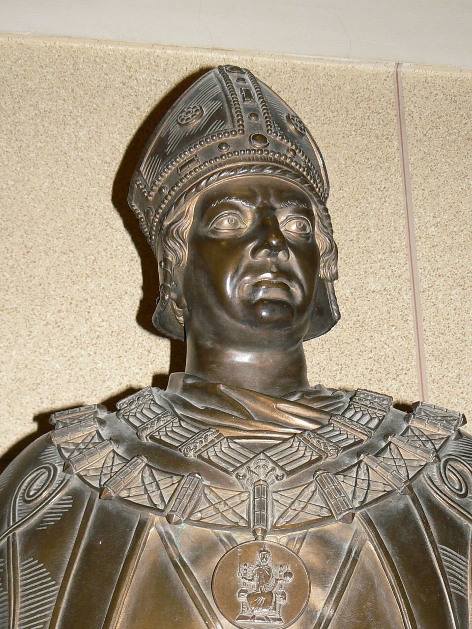 Statue of Arnošt of Pardubice in the National Museum in Prague (made by Ludwig Schwanthaler)